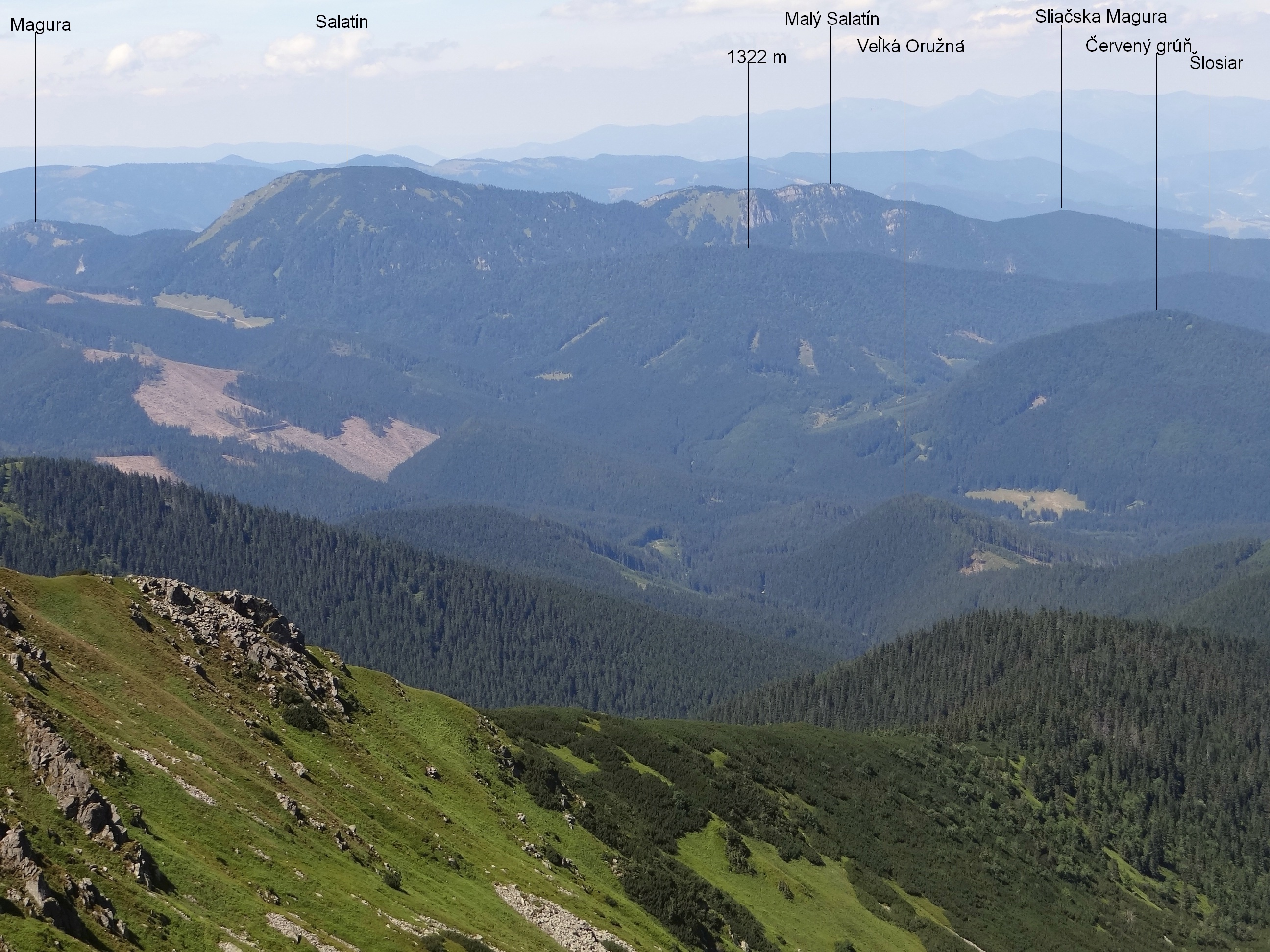 View from Chabenec